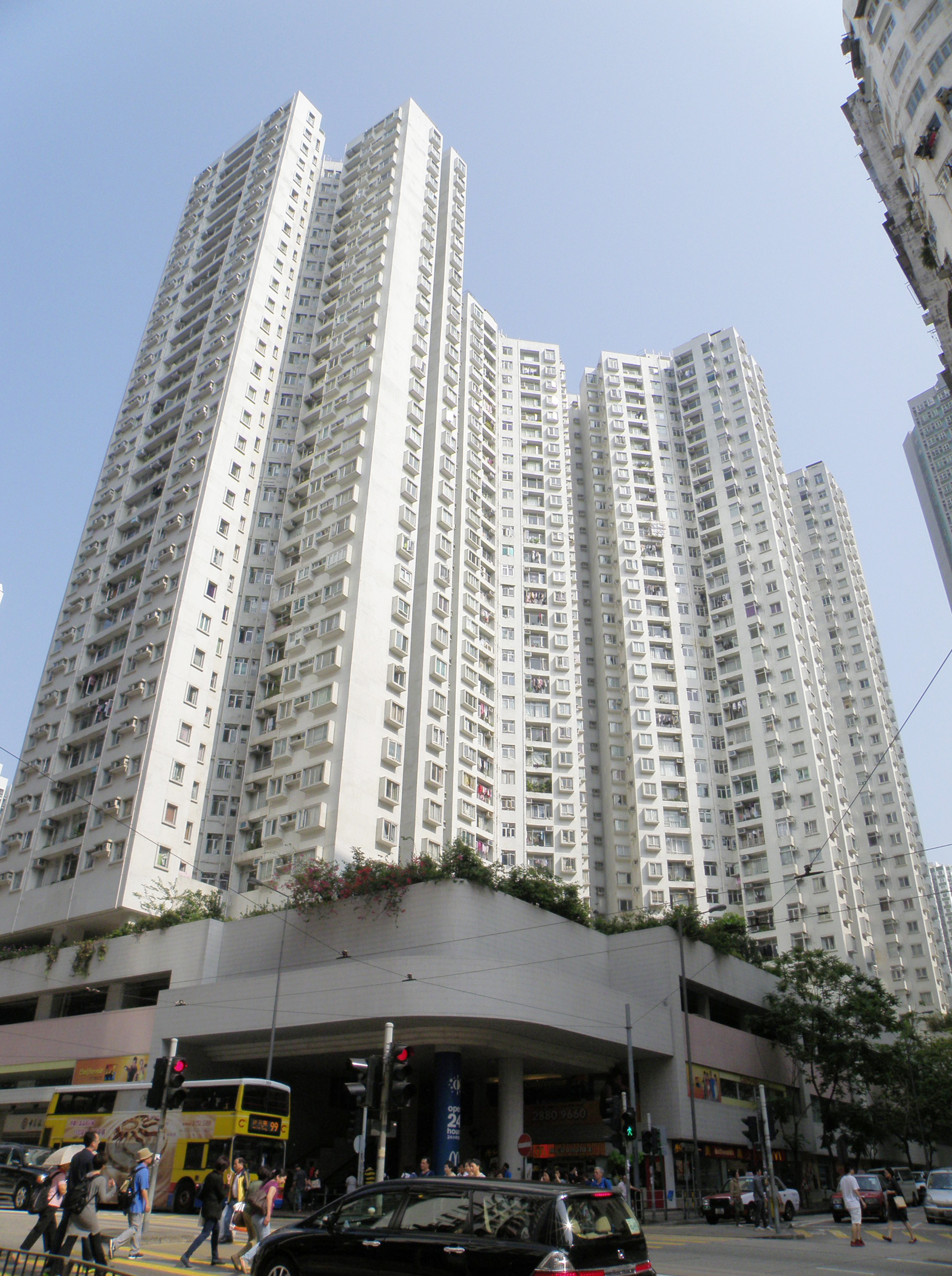 Parkvale in Kornhill, Hong Kong.